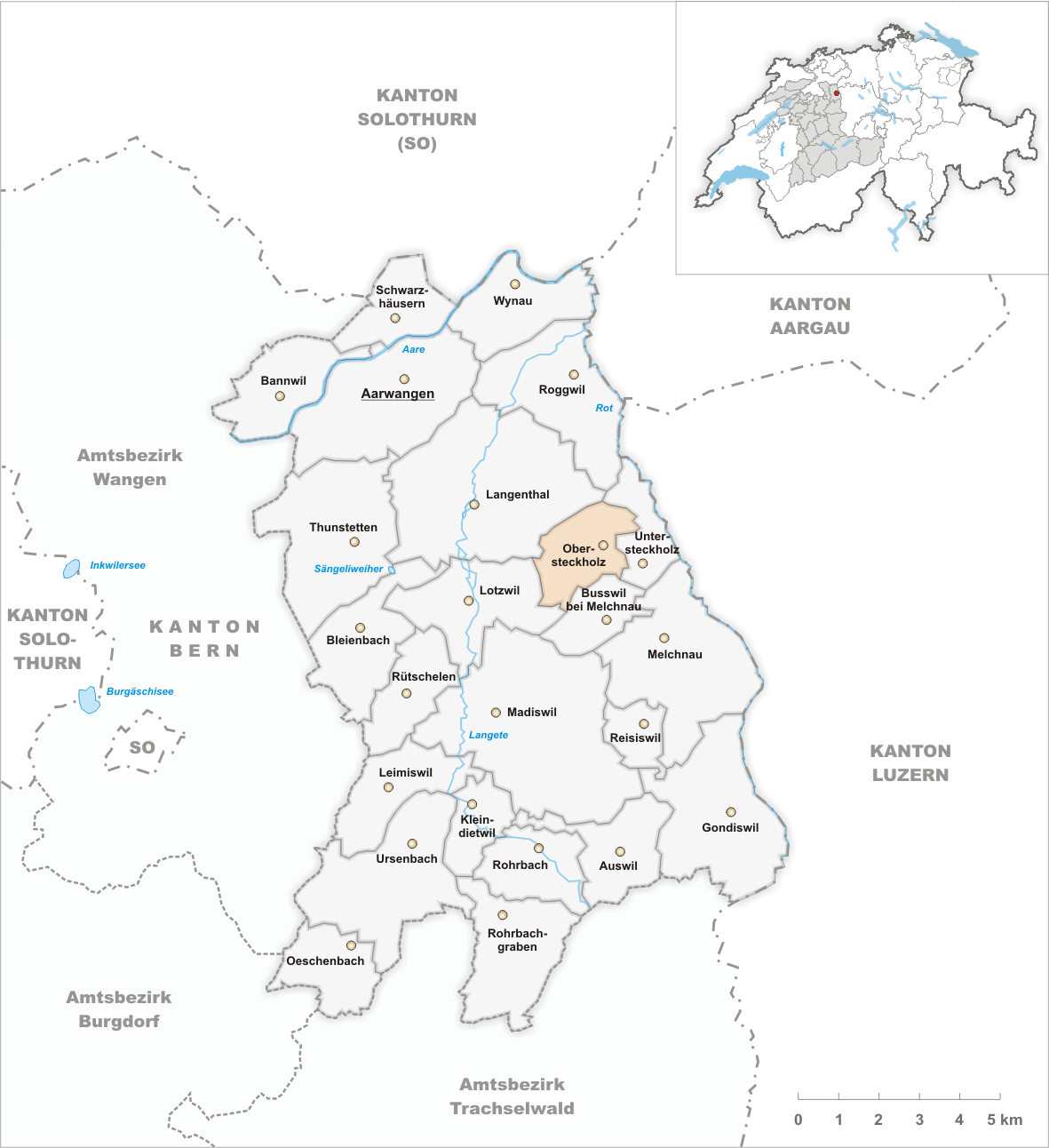 Municipality Obersteckholz